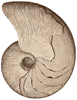 Marcellus Formation Cephalopod Fossil Image from 1896-Dana-ManGeol-Fig917